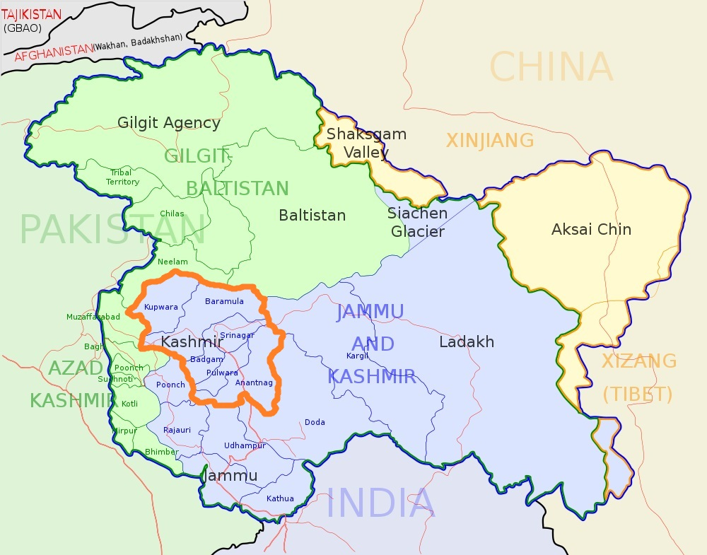 Processed file from Kashmir_map.svg